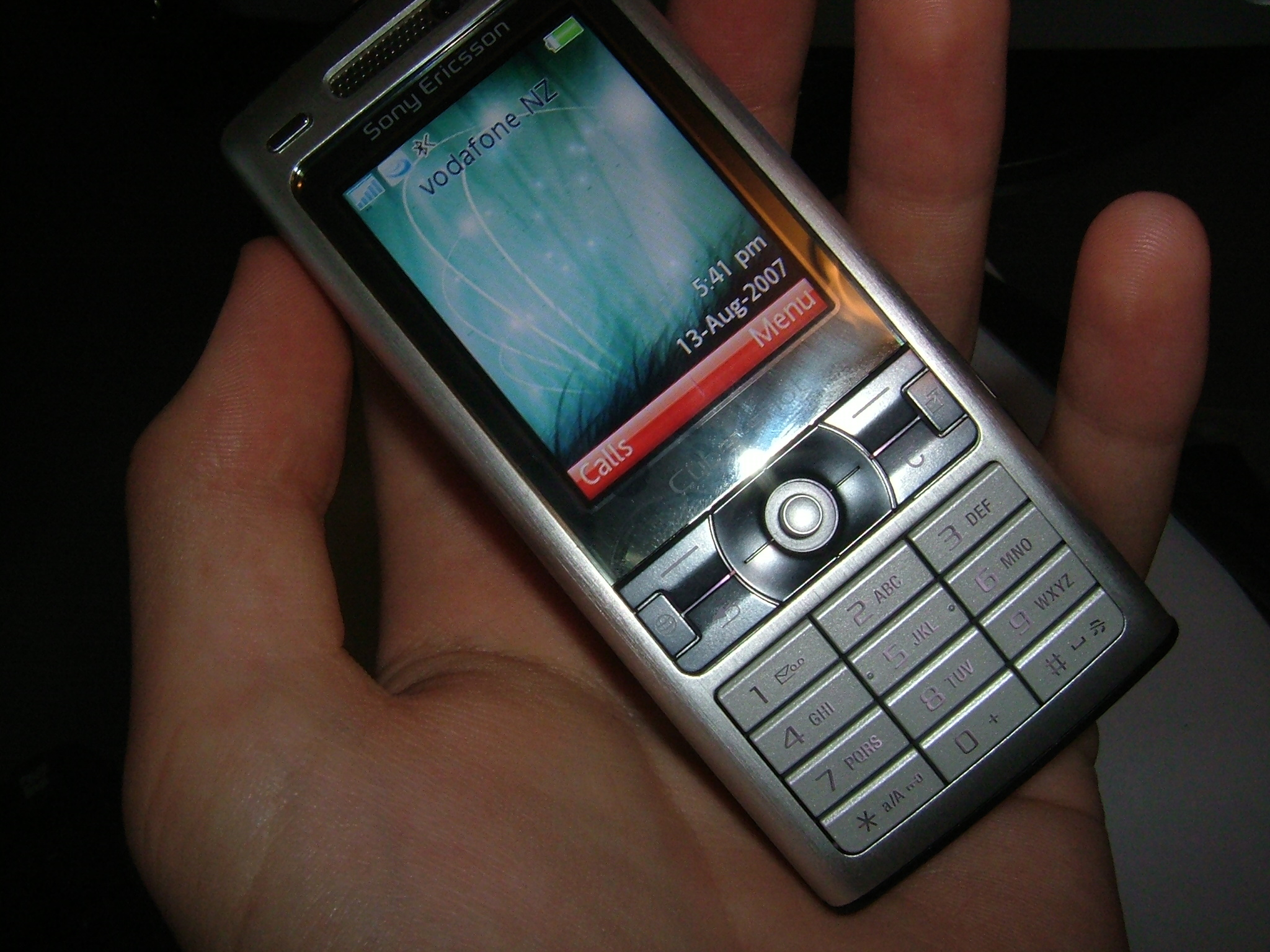 The Royale Silver (James Bond Casino Royale Limited Edition) edition of Sony Ericsson's K800i.